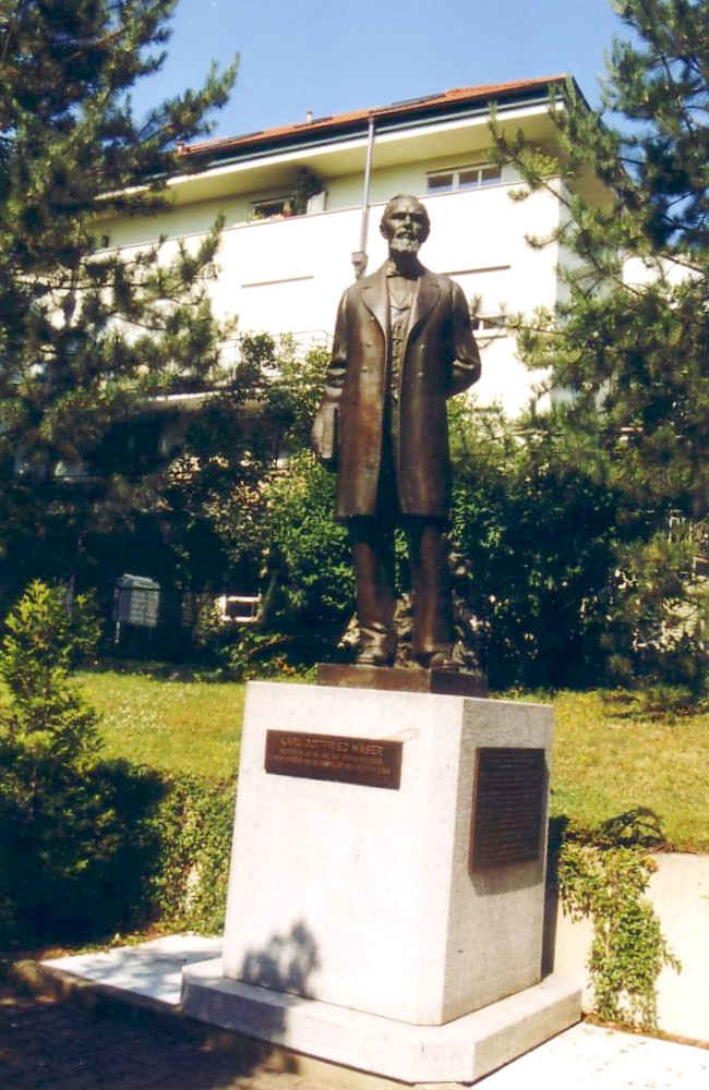 Maeser-Monument in Dresden, Germany (Garden of Mormon Centre)